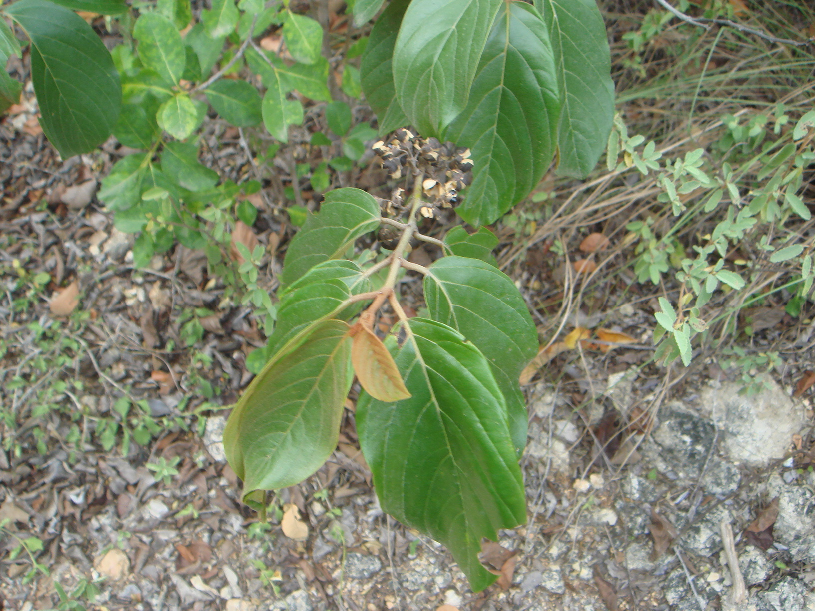 Soldierwood, snake bark tree, Dry Forest of Guánica, PR.